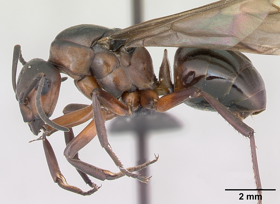 Profile view of ant Formica rufa specimen casent0173133.